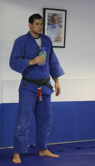 Roger Gracie instructing at Maven BJJ in Woking, UK. Photographed by Kerri Roberts